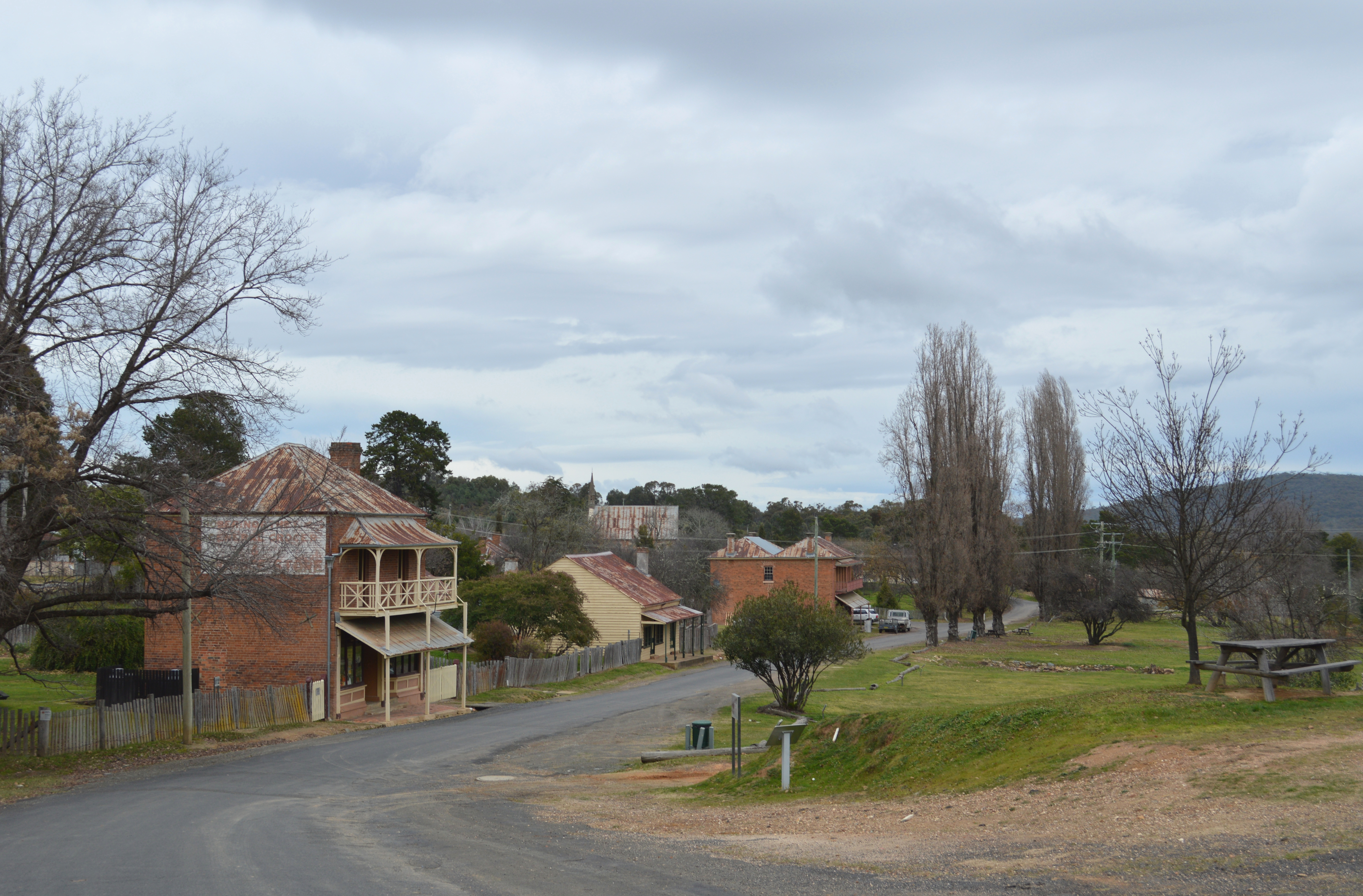 Looking over Hill End, New South Wales